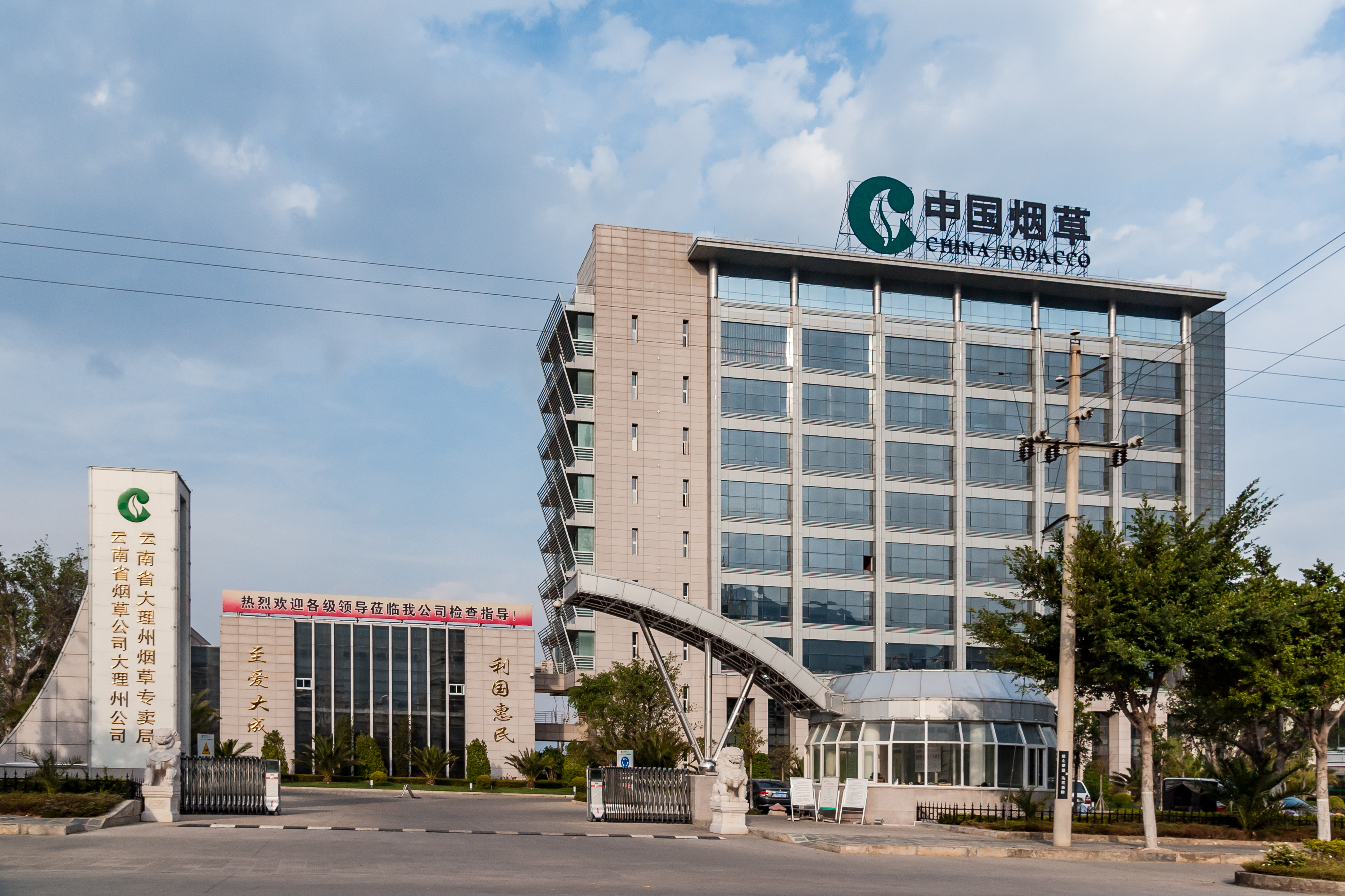 Dali, Yunnan, China: Building of China Tobacco